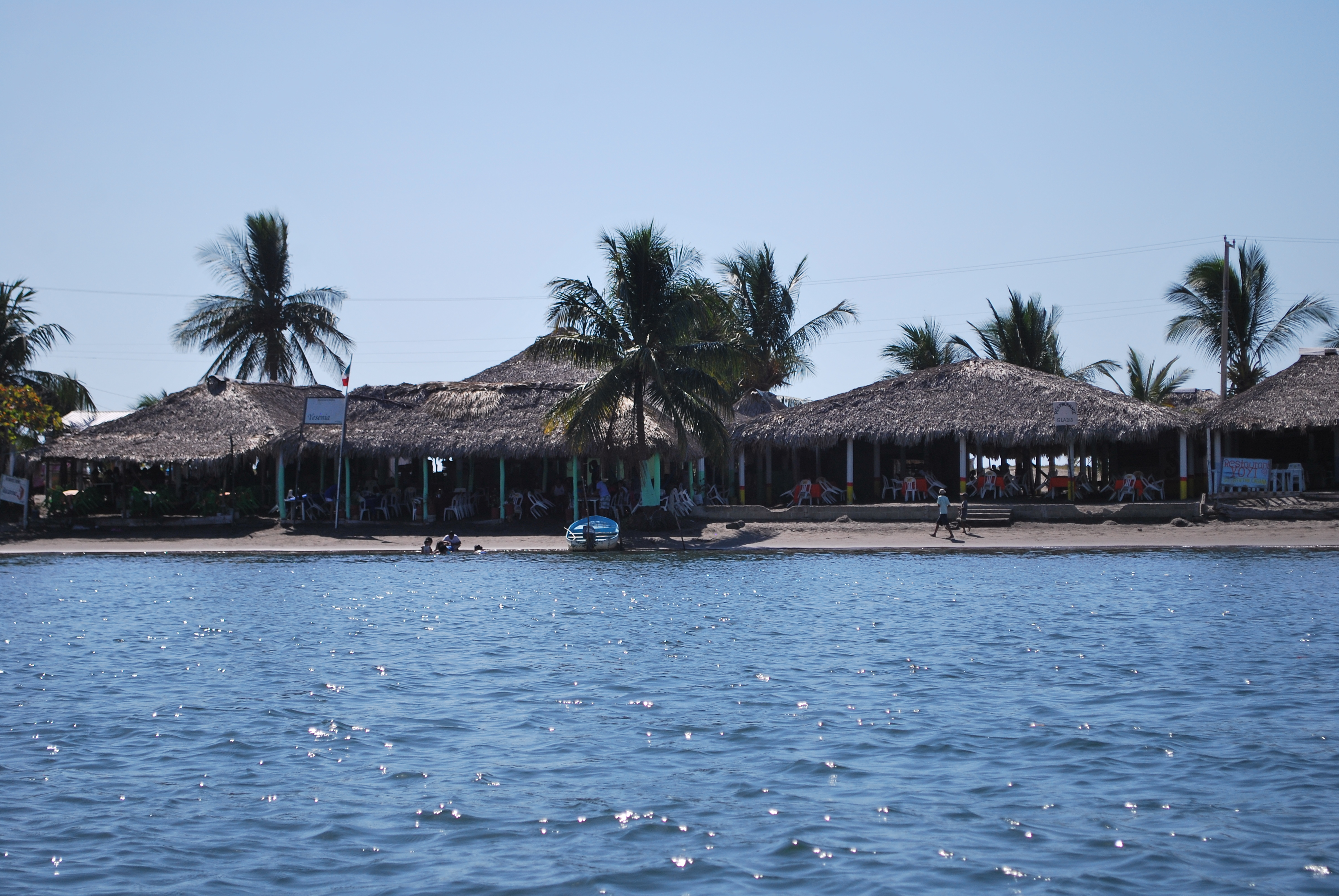 Palapas on San Marcos Island in Boca del Cielo, Chiapas